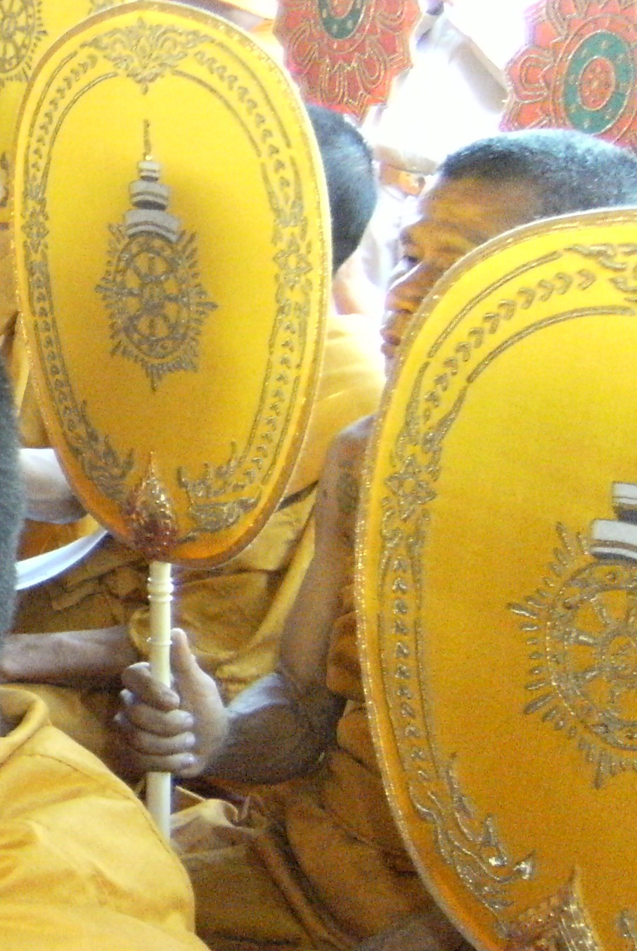 A monk and fan of Thai monk rank.Wat Nong Wong, Amphoe Sawankhalok, Sukhothai, Thailand.